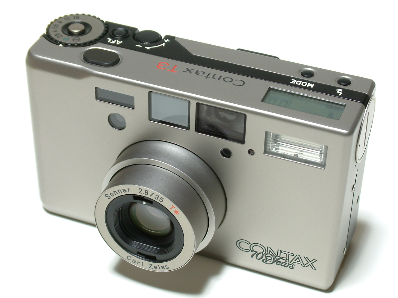 Contax T3(70th anniversary ver.)